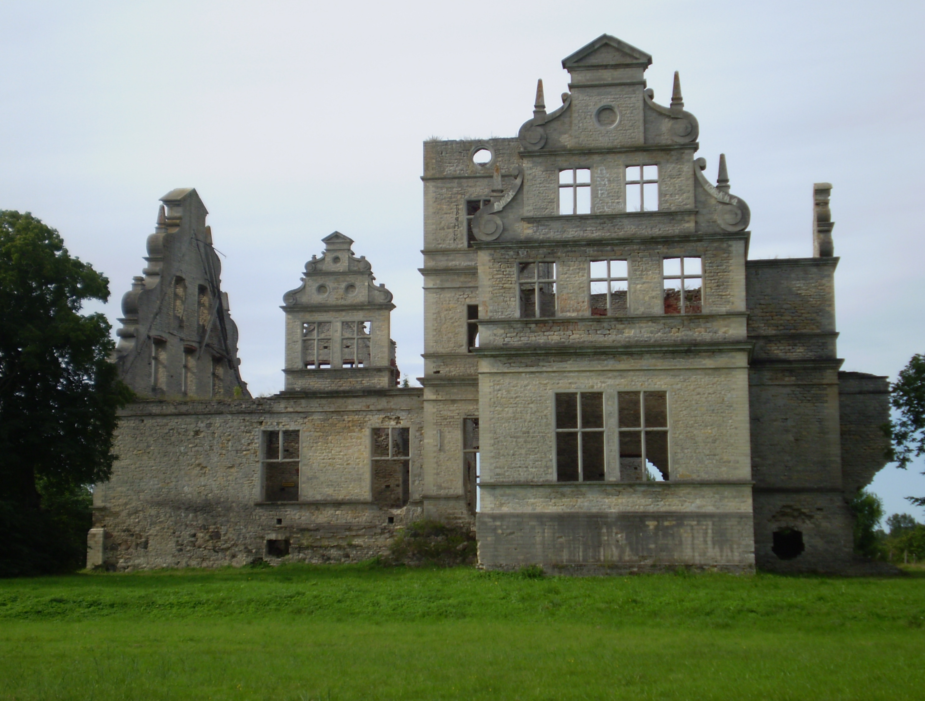 Ruins of Ungru Manor near Haapsalu.